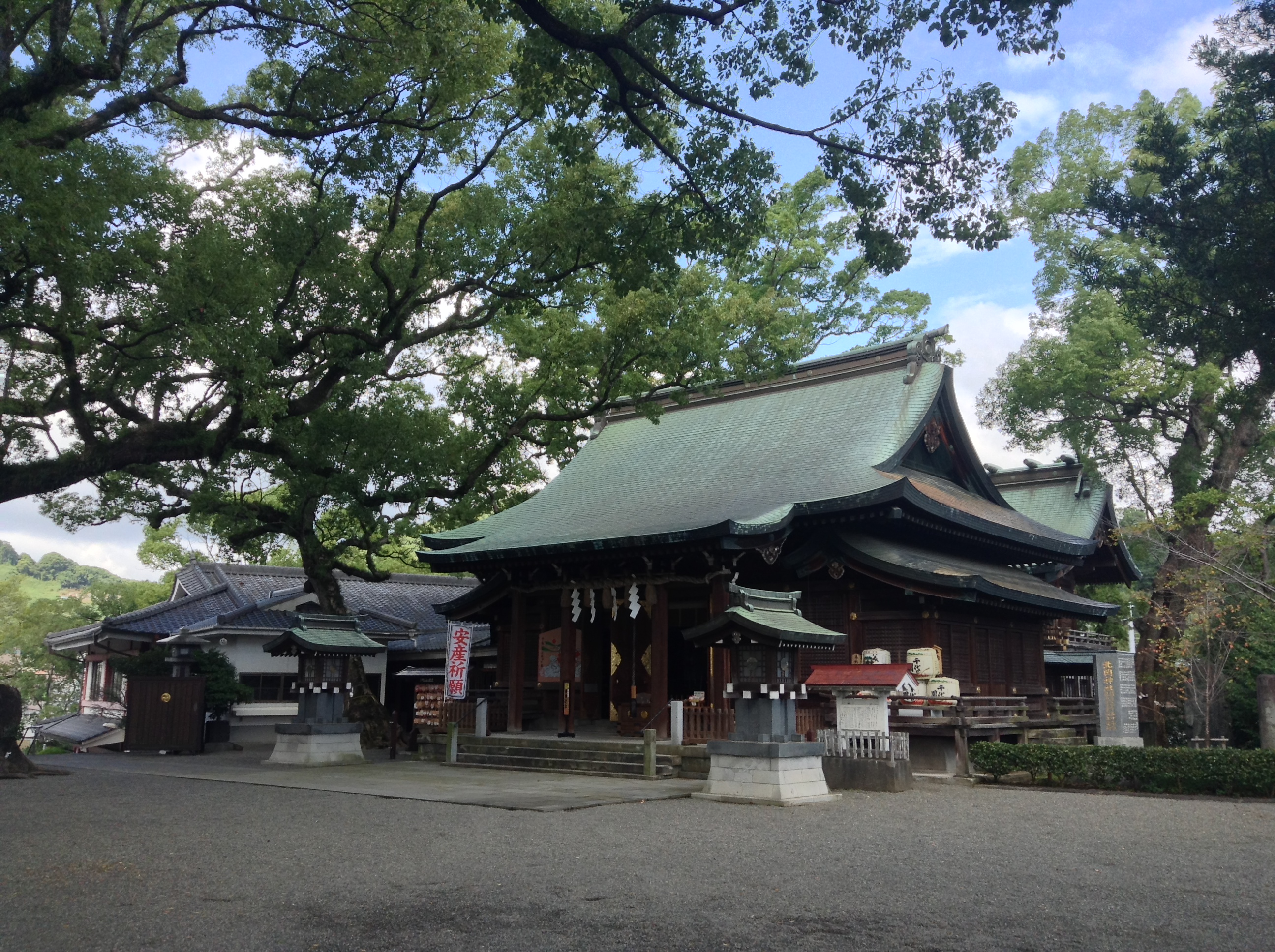 Kitaoka Shrine.